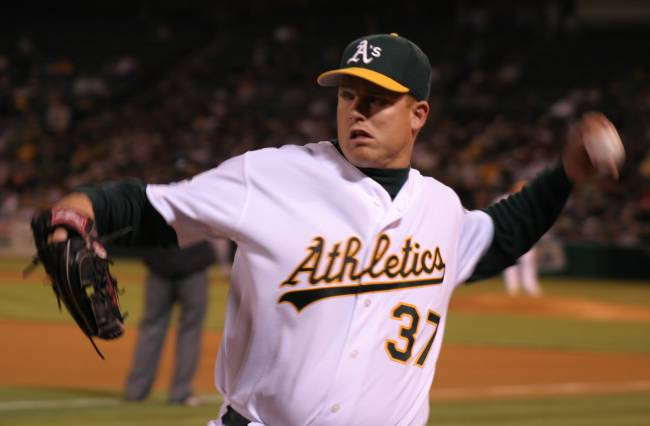 Photo by Justin Lafferty 16:59, 23 August 2006 . . Jlaff . . 650×426 (27 KB)